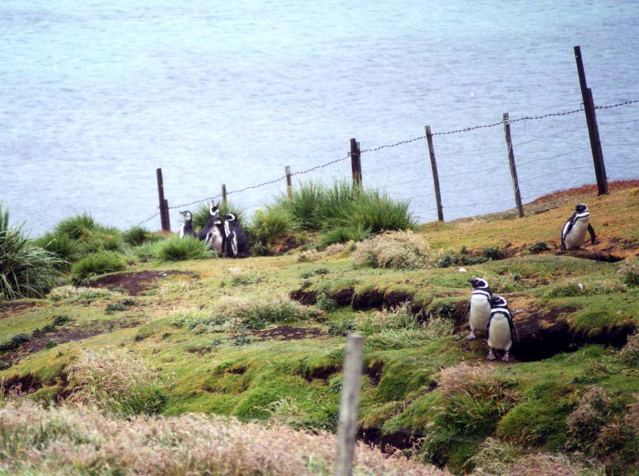 Photo of Spheniscus magellanicus (Magellanic penguin) fenced off (to protect sheep legs) on Carcass Island, Falkland Islands